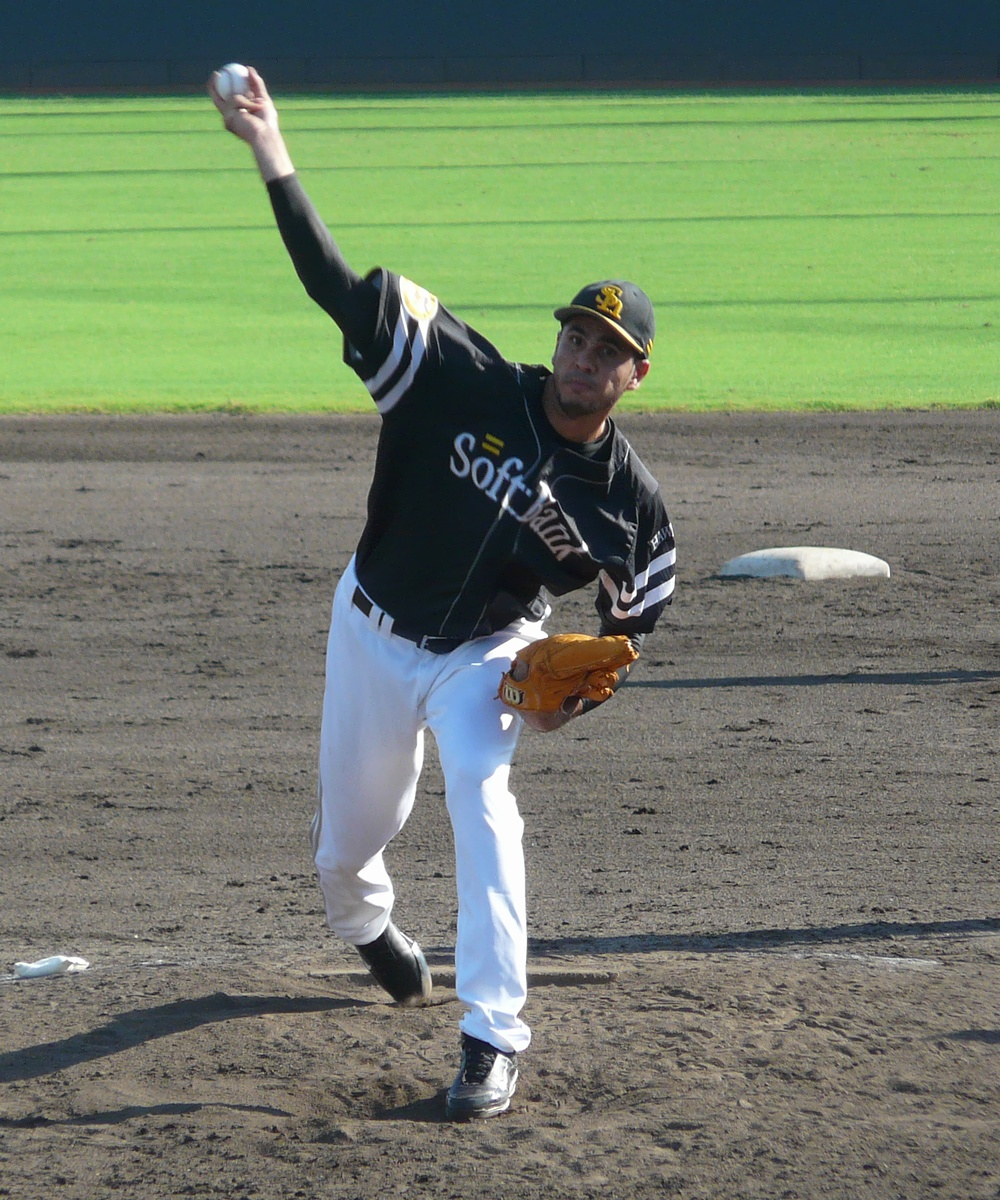 SH-Levi-Romero20120919